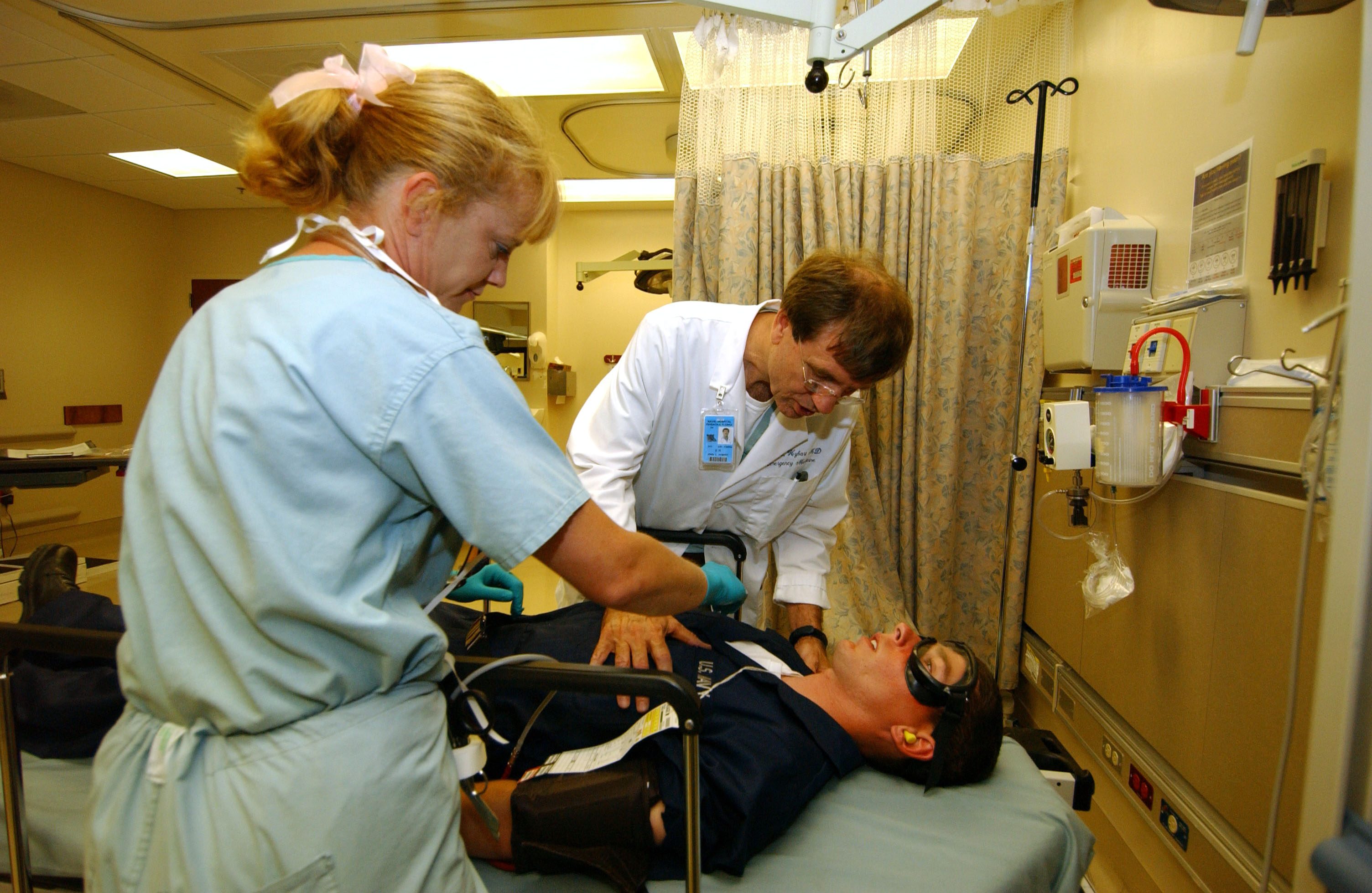 Pensacola, Fla (May 26, 2005) - Shannon Bathurst, left, Emergency Medical Technician and John Hybart, Medical Director Emergency Department performs a medical evaluation to a simulated patient during exercise Lifesaver 2005 at Pensacola Naval Air Station. Military personnel join local, state and federal agencies in Lifesaver 2005, a major Homeland Security/National Disaster Medical System exercise being conducted in eight states. U.S. Air Force photo by Master Sgt. James M. Bowman (RELEASED)